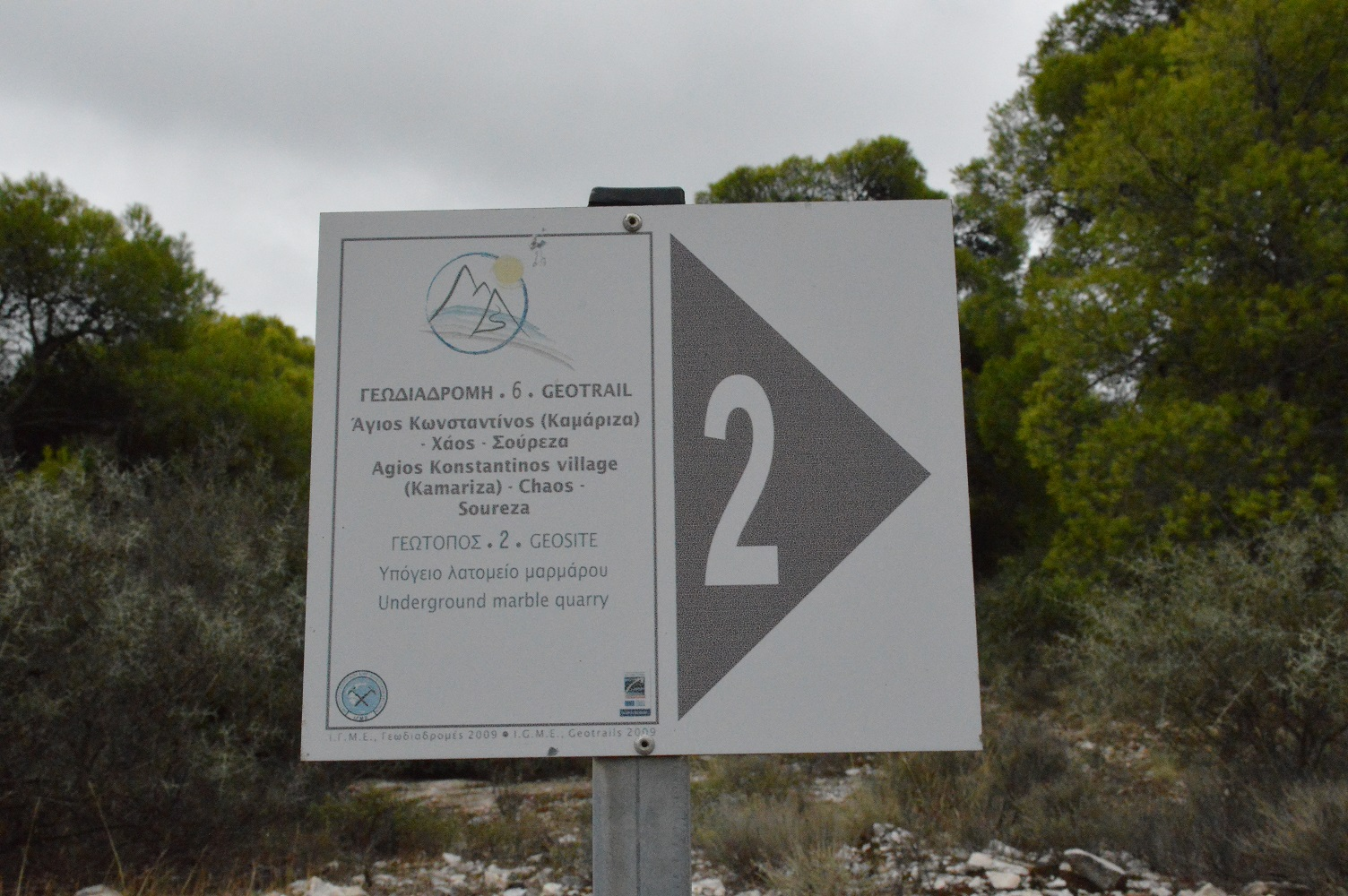 Geotrail 6, Lavrion Geo park proposal